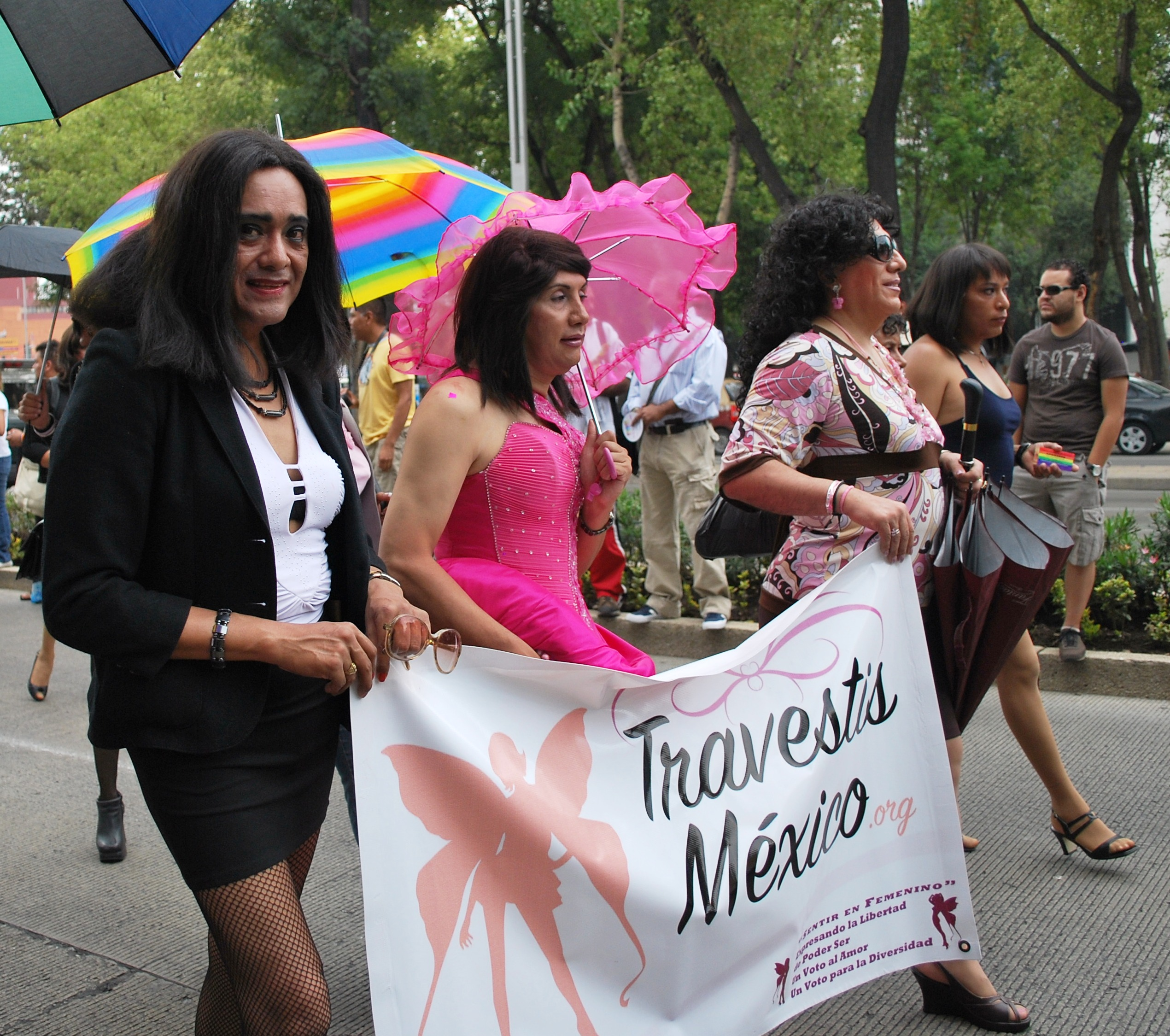 Transvestite group at the 2009 Marcha Gay in Mexico City